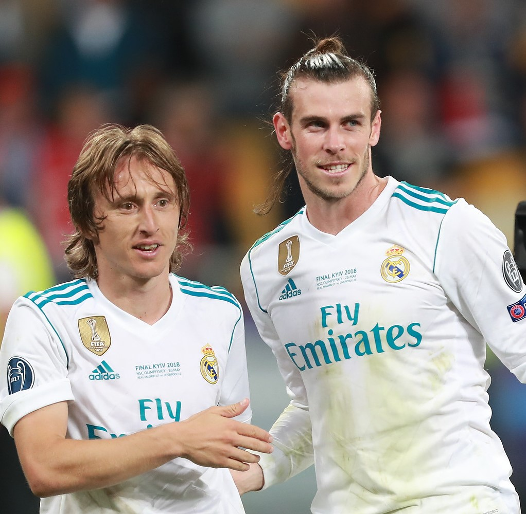 Luka Modrić, Gareth Bale